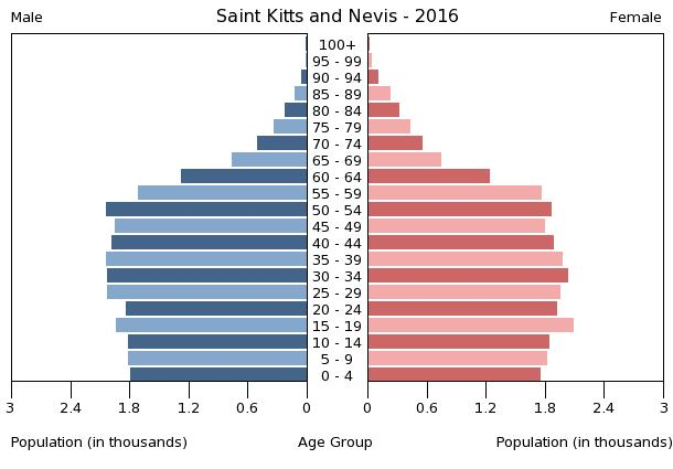 The population pyramid of Saint Kitts and Nevis illustrates the age and sex structure of population and may provide insights about political and social stability, as well as economic development. The population is distributed along the horizontal axis, with males shown on the left and females on the right. The male and female populations are broken down into 5-year age groups represented as horizontal bars along the vertical axis, with the youngest age groups at the bottom and the oldest at the top. The shape of the population pyramid gradually evolves over time based on fertility, mortality, and international migration trends.